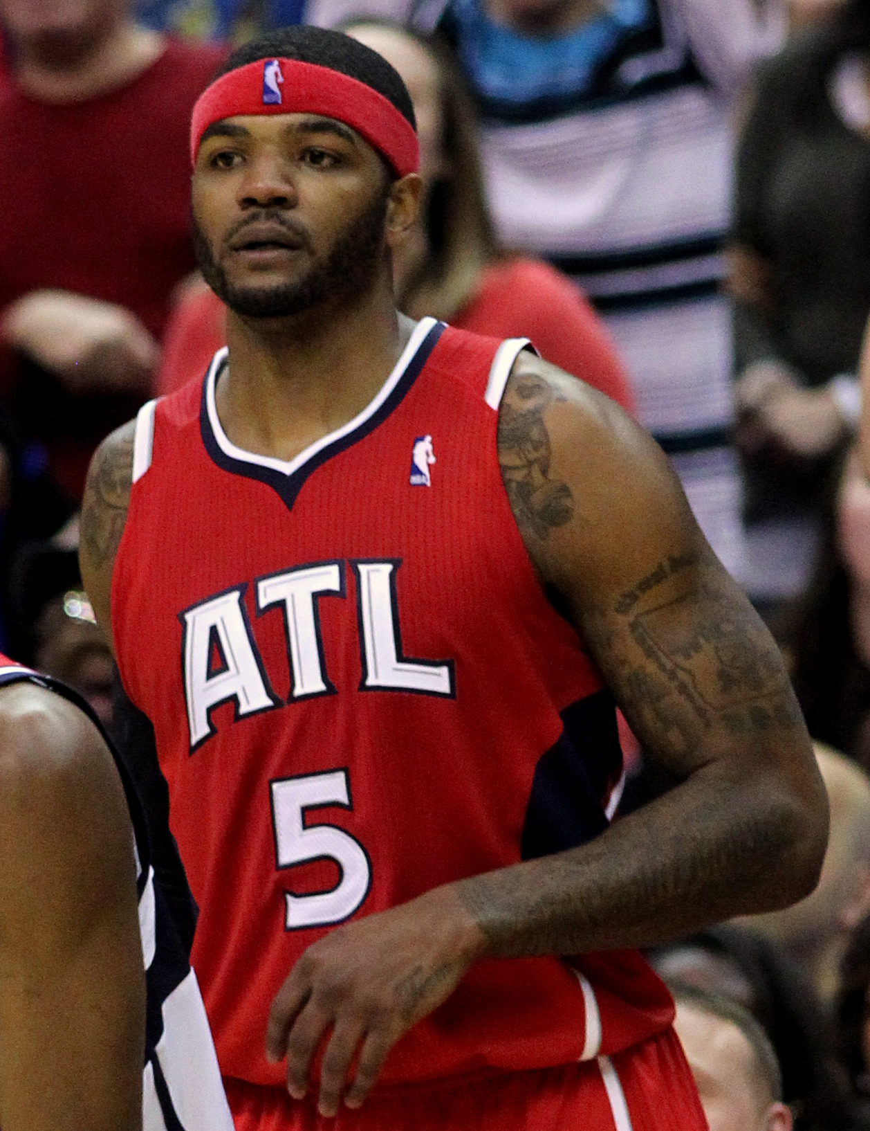 Josh Smith vs Wizards